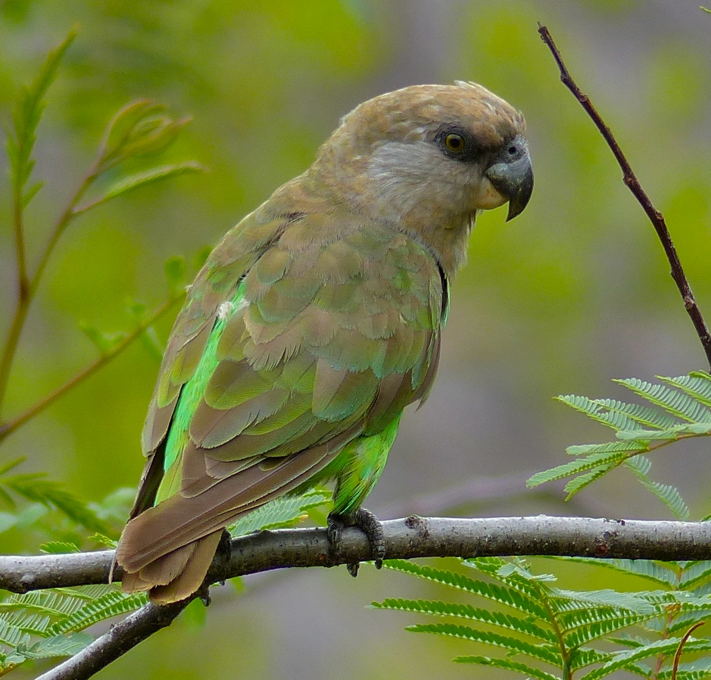 Brown-headed parrot, perhaps perched in Peltophorum africanum, at Bungalow N°51, Mopani Camp, Kruger NP, SOUTH AFRICA